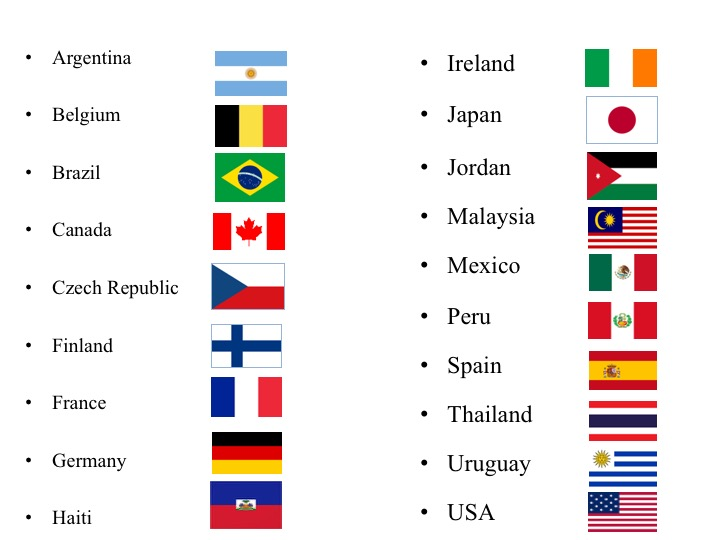 List of countries that teach ISO 29110